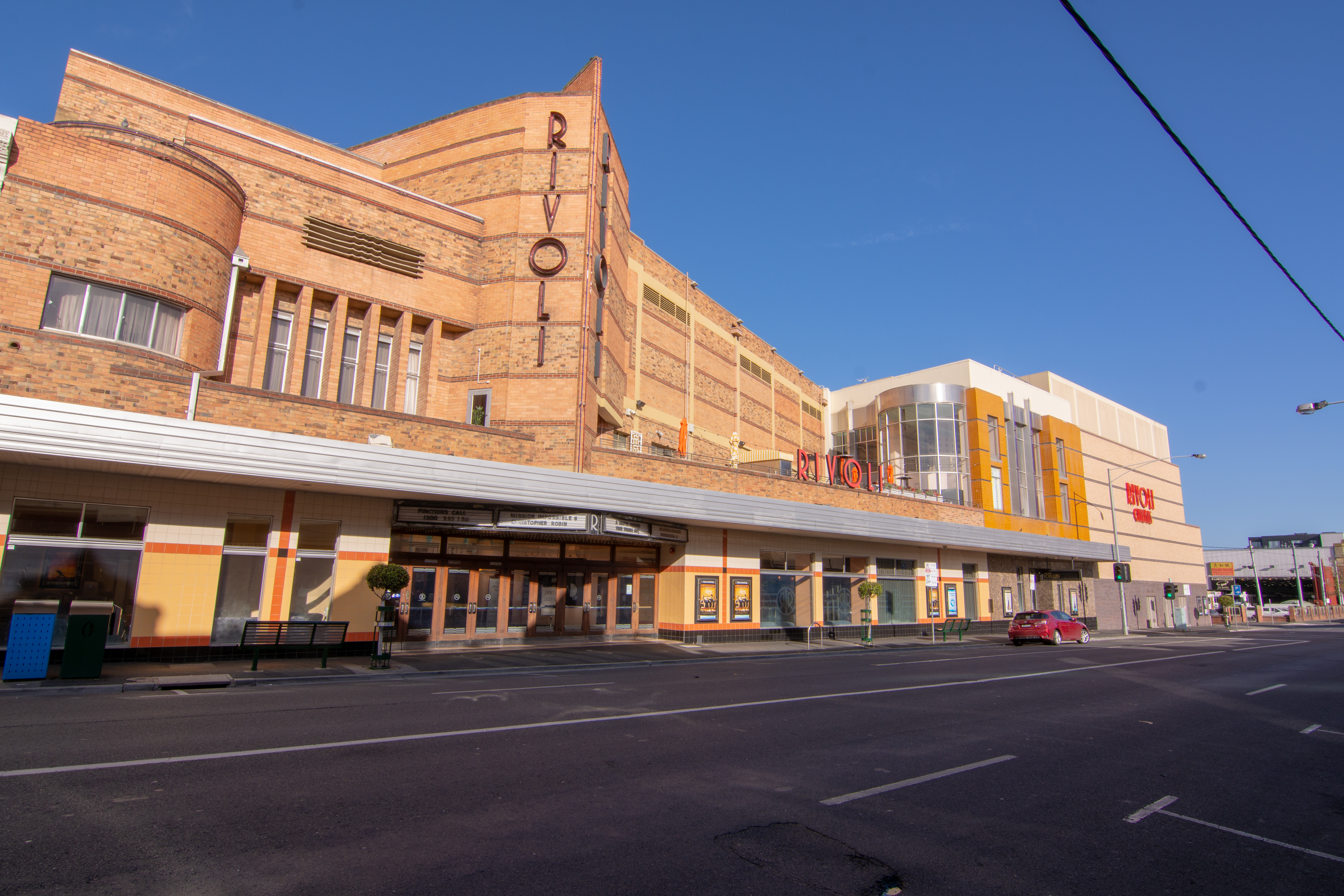 The Rivoli Cinema seen from Camberwell Road.